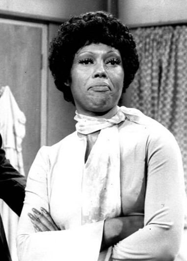 Photo from the television program Good Times. Pictured are Ja'net DuBois (Wilona) and her boyfrield played by J.A. Preston.